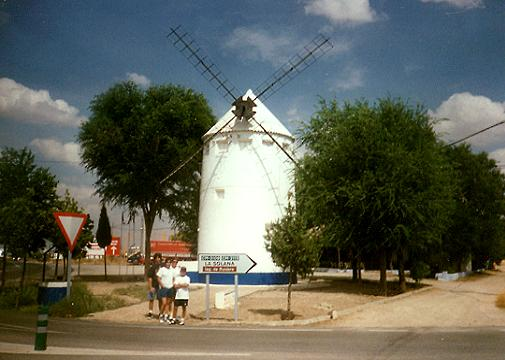 to recreate Quixote's windmills